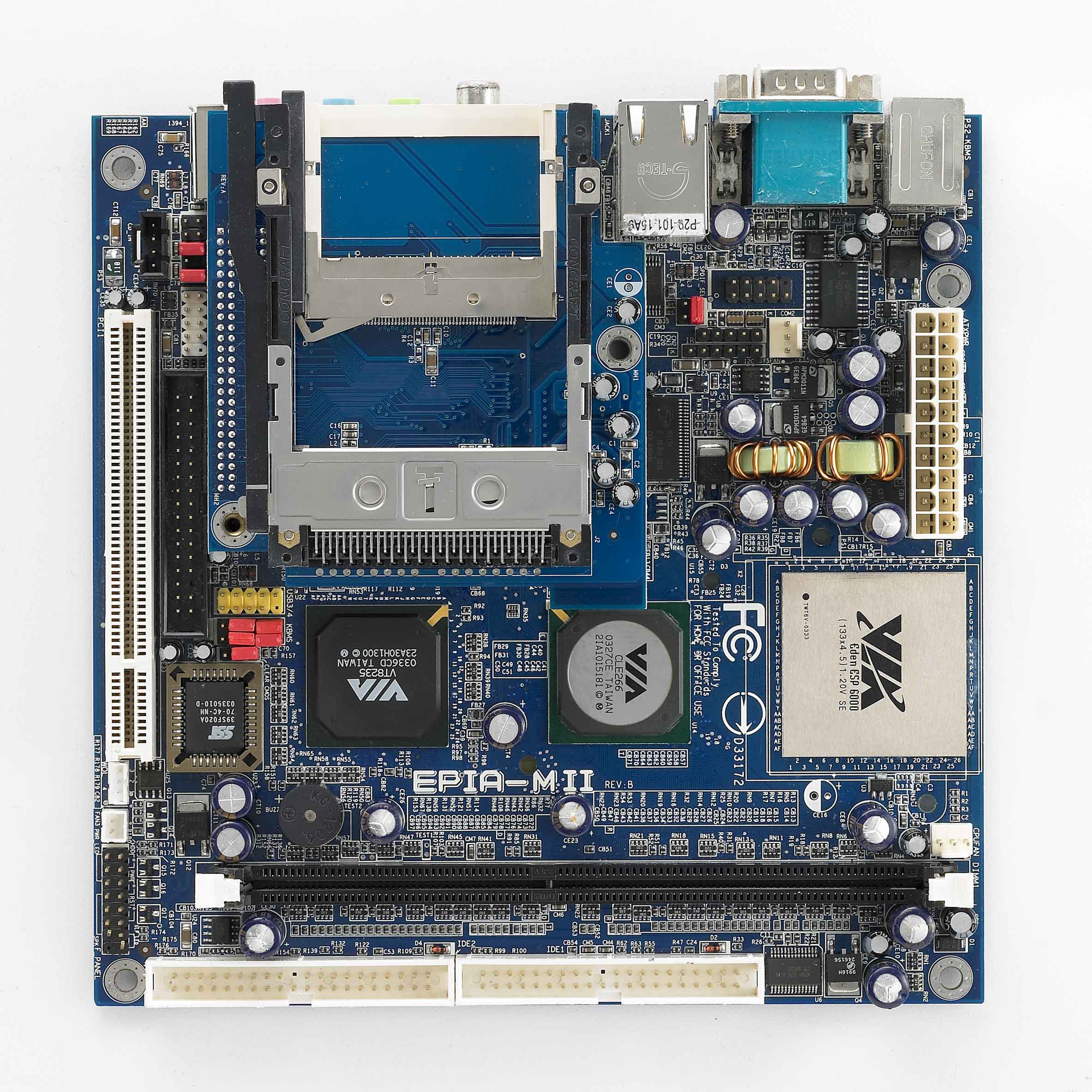 The VIA EPIA MII was the first Mini-ITX baord to feature the fanless VIA Eden ESP CPU as well as the VIA Apollo CLE266 chipset. It was launched in November 2003.